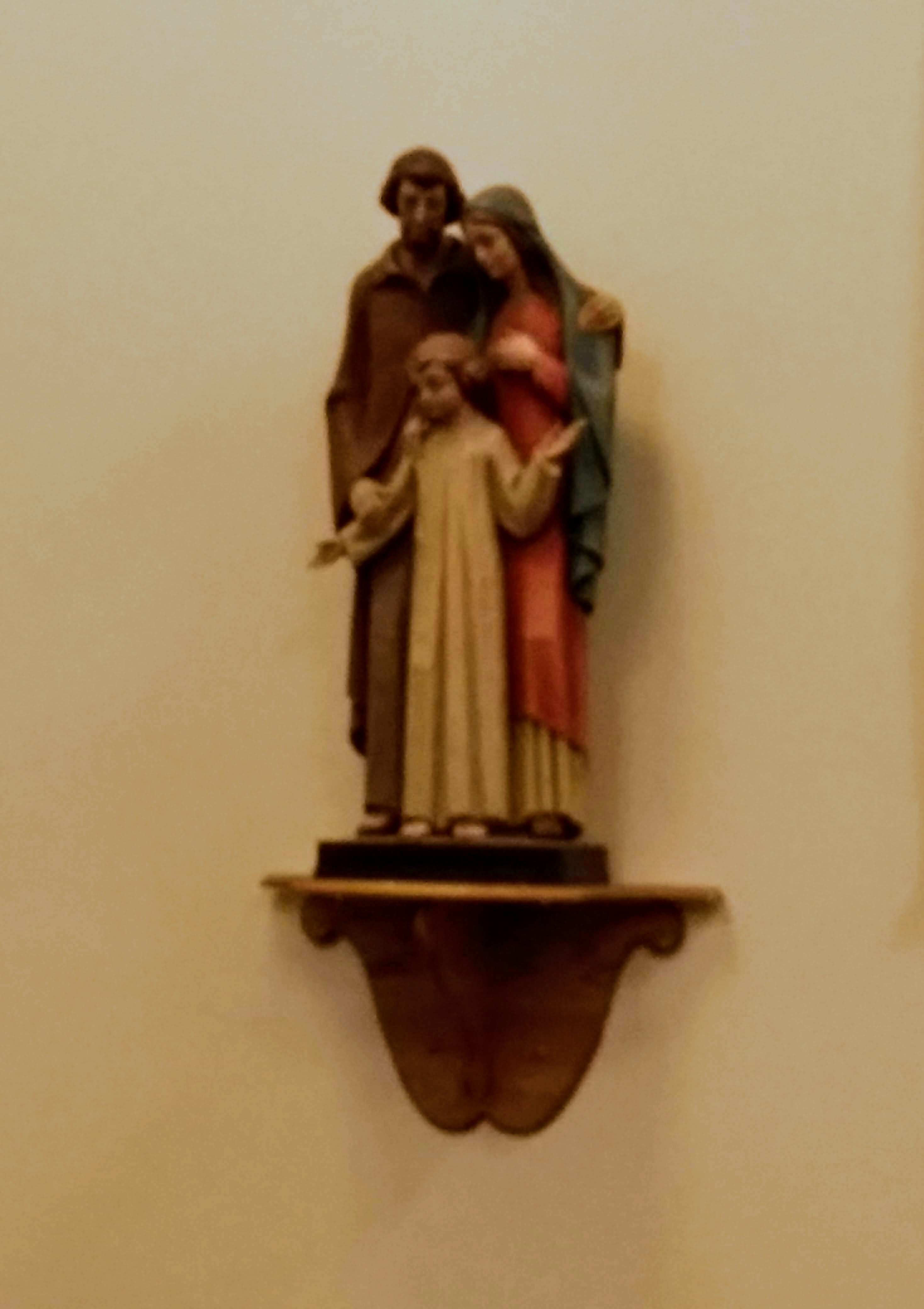 A statue of Joseph Mary and Jesus in the Holy Family Hospital, Methuen, Massachusetts.